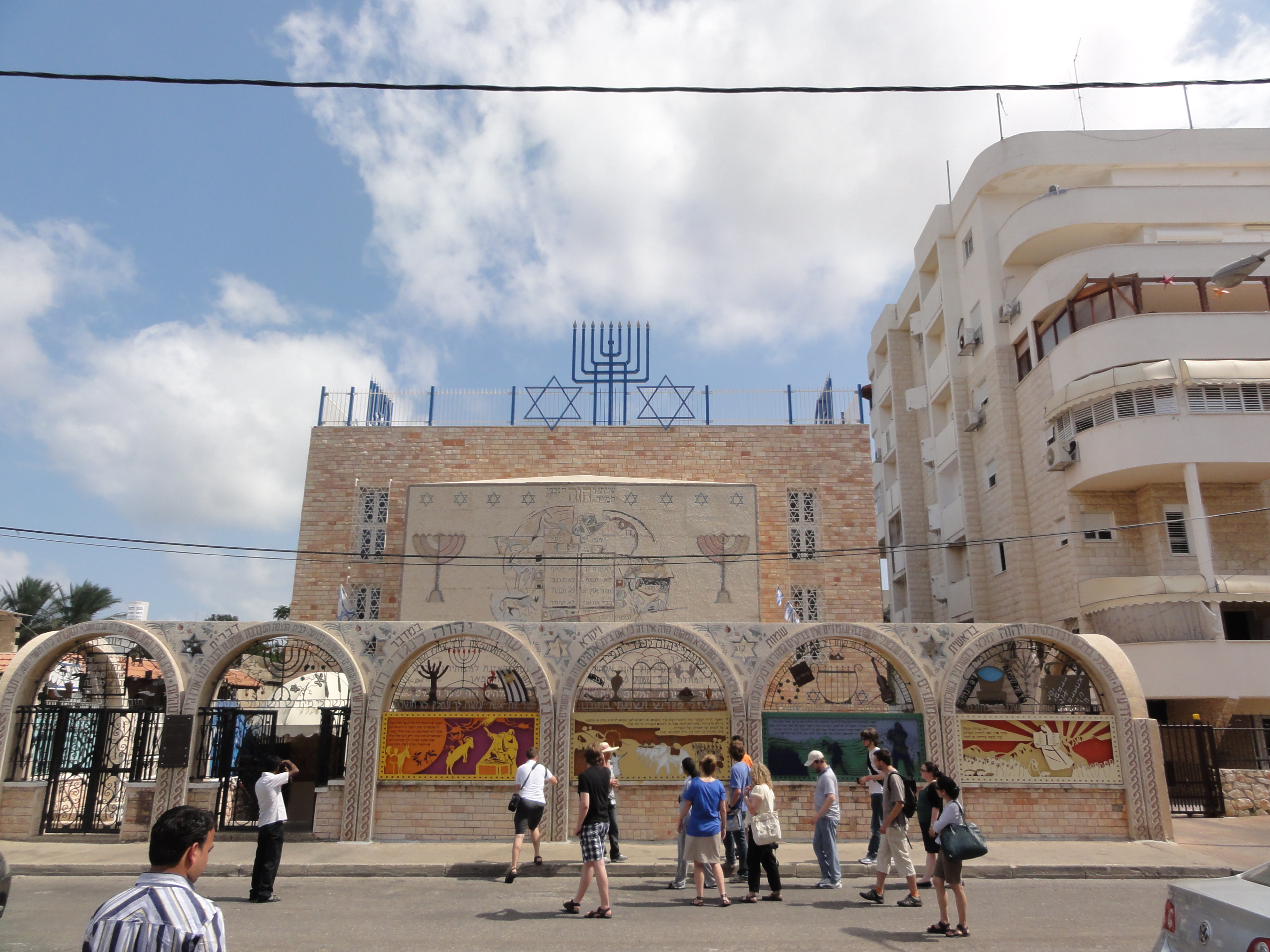 Or Torah Synagogue, Israel Info GPS data may be inaccurate. EXIF data regarding date and time may be inaccurate.